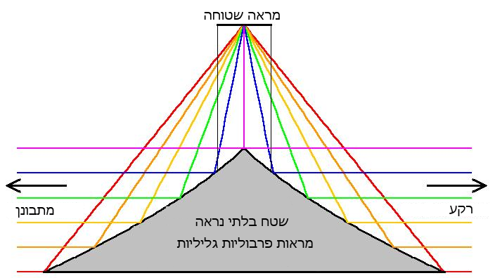 By using two parabolic cylindric mirrors and one plane mirror, the image of the background is directed around an object, making the object itself invisible - at least from two sides.